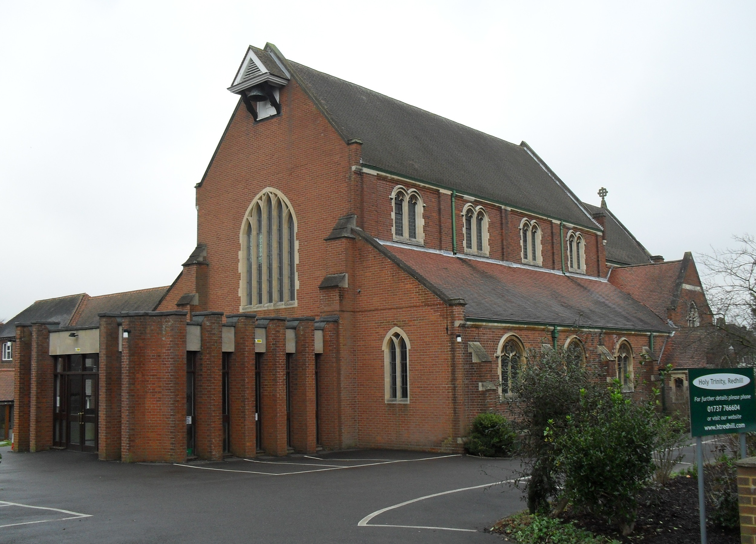 Holy Trinity Church, London Road, Redhill, Reigate and Banstead District, Surrey, England.